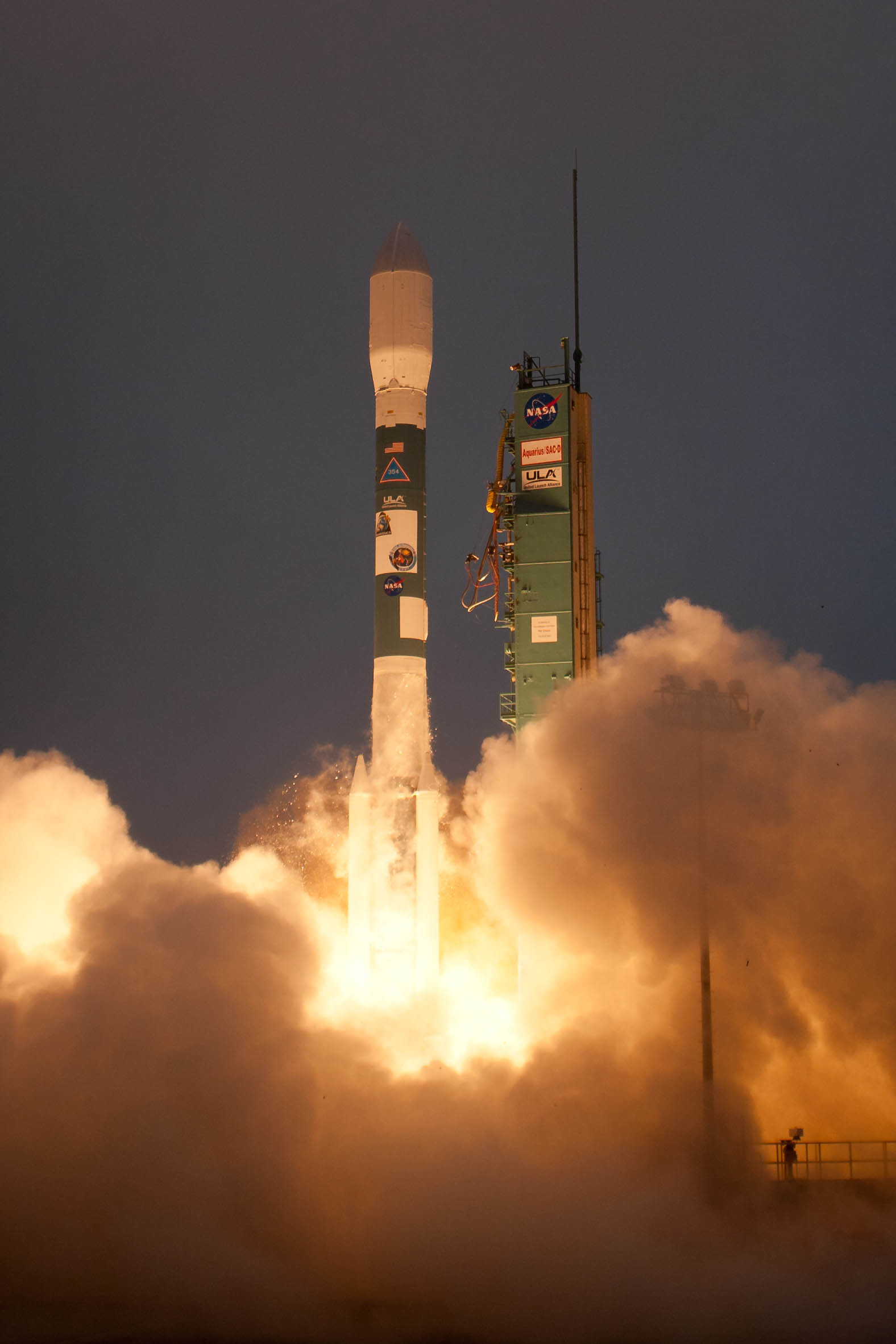 A Delta II rocket launches with the Aquarius/SAC-D spacecraft payload from Space Launch Complex 2 at Vandenberg Air Force Base, Calif. on Friday, June 10, 2011. The joint U.S./Argentinian Aquarius/Satélite de Aplicaciones CientÃ­ficas (SAC)-D mission will map the salinity at the ocean surface, information critical to improving our understanding of two major components of Earth's climate system: the water cycle and ocean circulation.